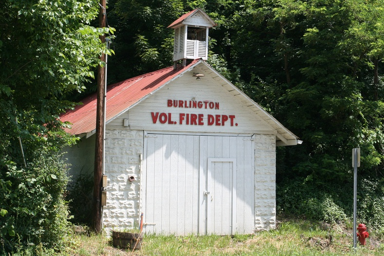 Old Burlington Volunteer Fire Company Engine House in Burlington, Mineral County, West Virginia